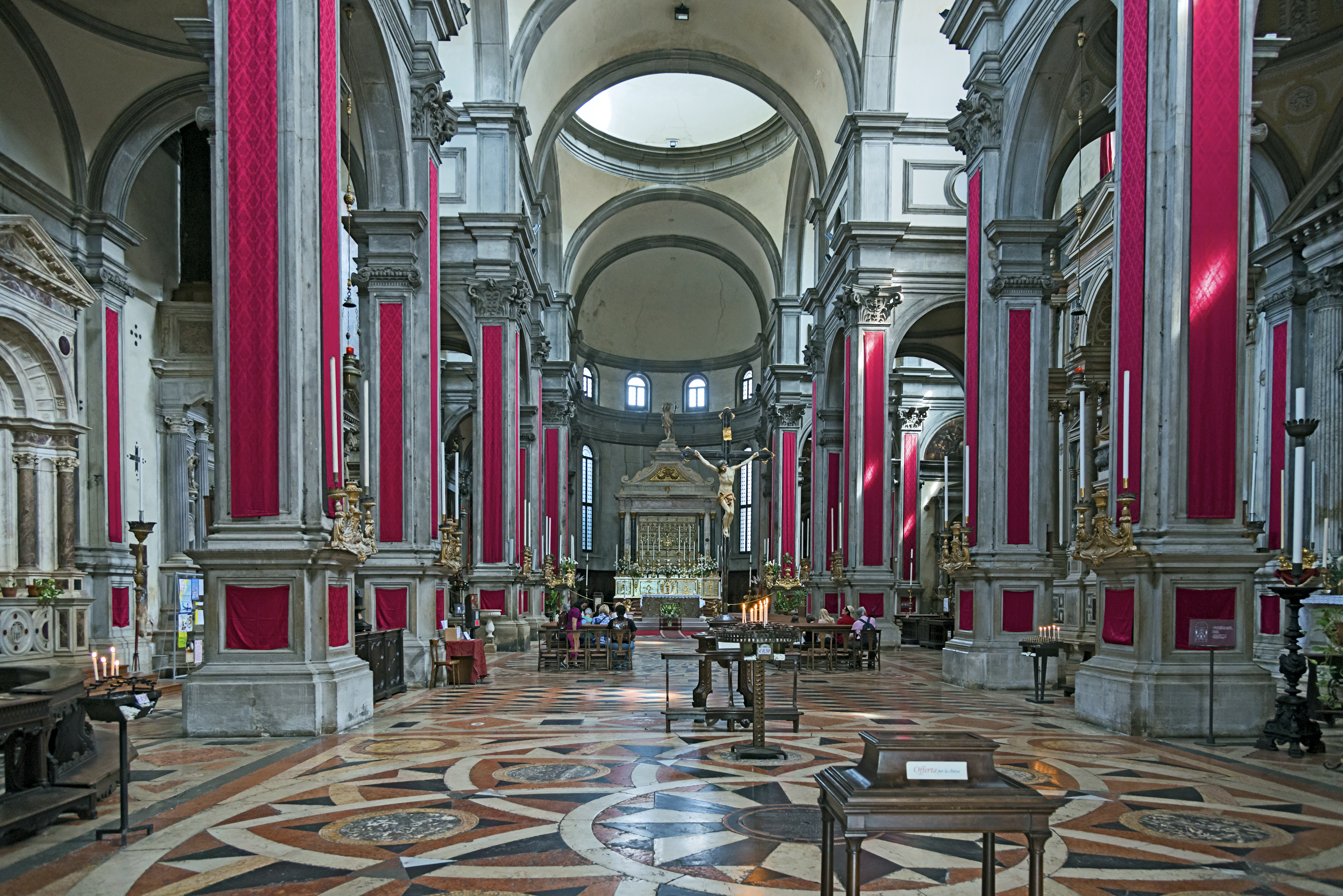 Church of San Salvador, in Venice Inside by Tullio Lombardo